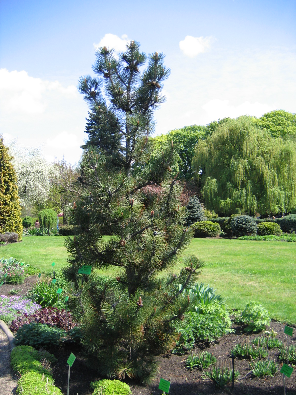 Bosnian Pine cultivar 'Satellit' (Pinus heldreichii 'Satellit'), young tree cultivated in Wrocław University Botanical Garden, Wrocław, Poland.